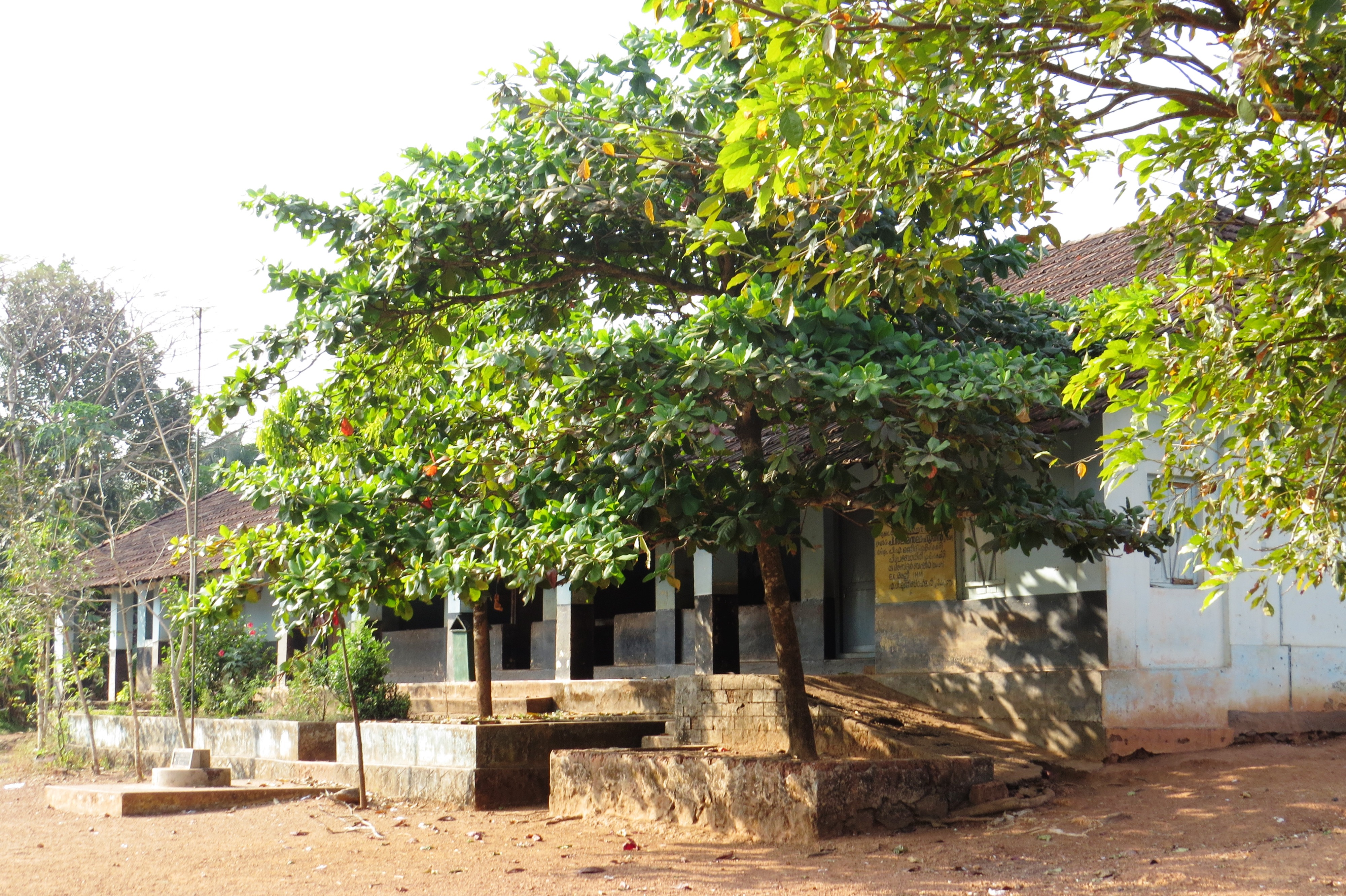 GMLP School Mampuzha, Tuvvur, Kerala